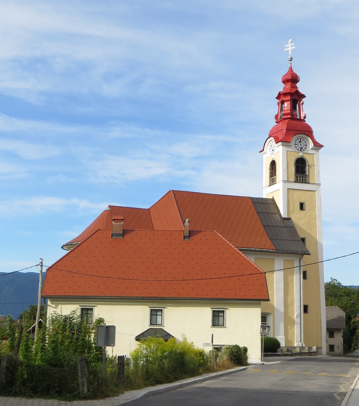 Saint Ulrich's Church in Begunje na Gorenjskem, Municipality of Radovljica, Slovenia